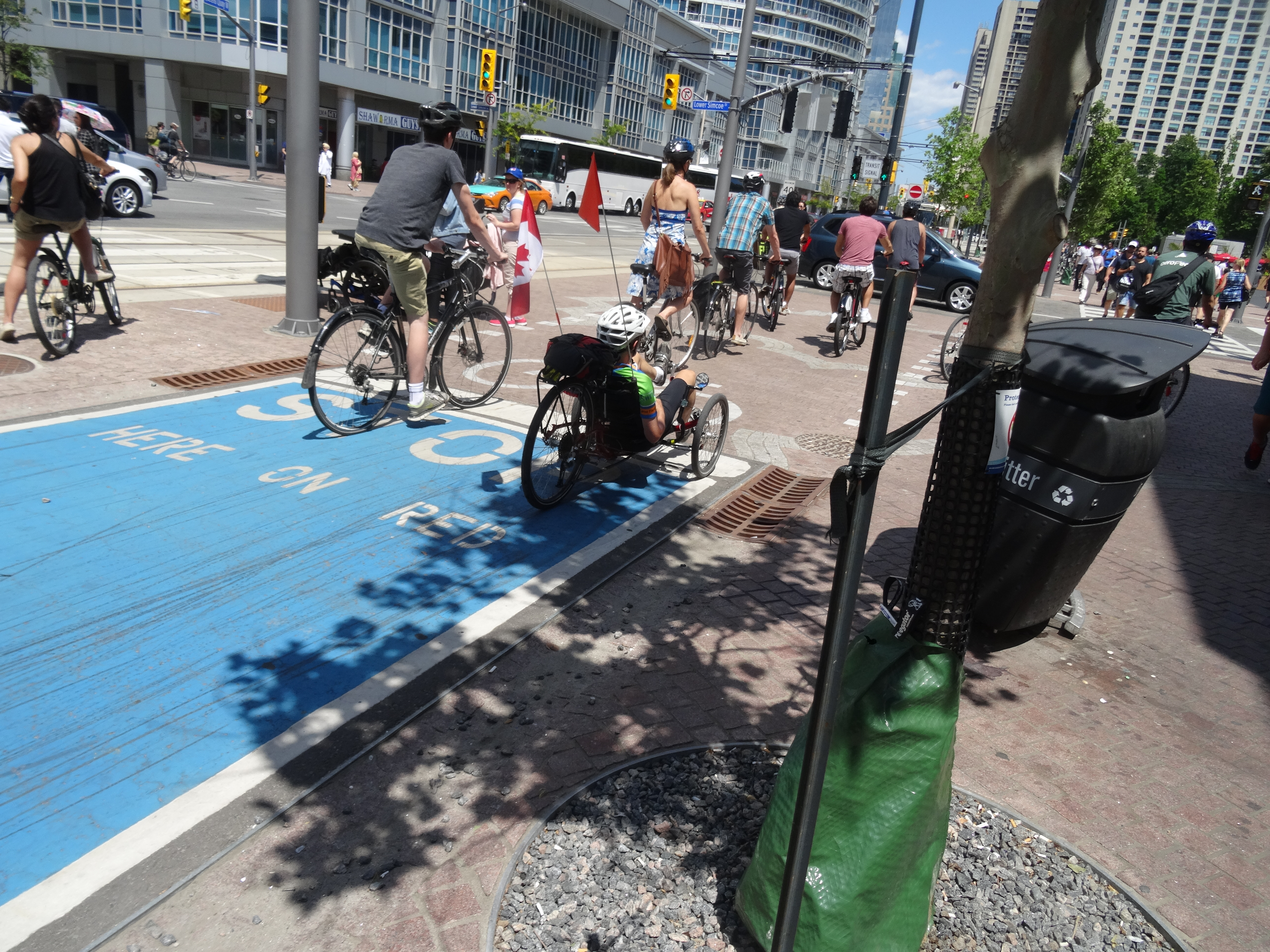 Exploring Queen's Quay, 2016 07 03 (2).JPG